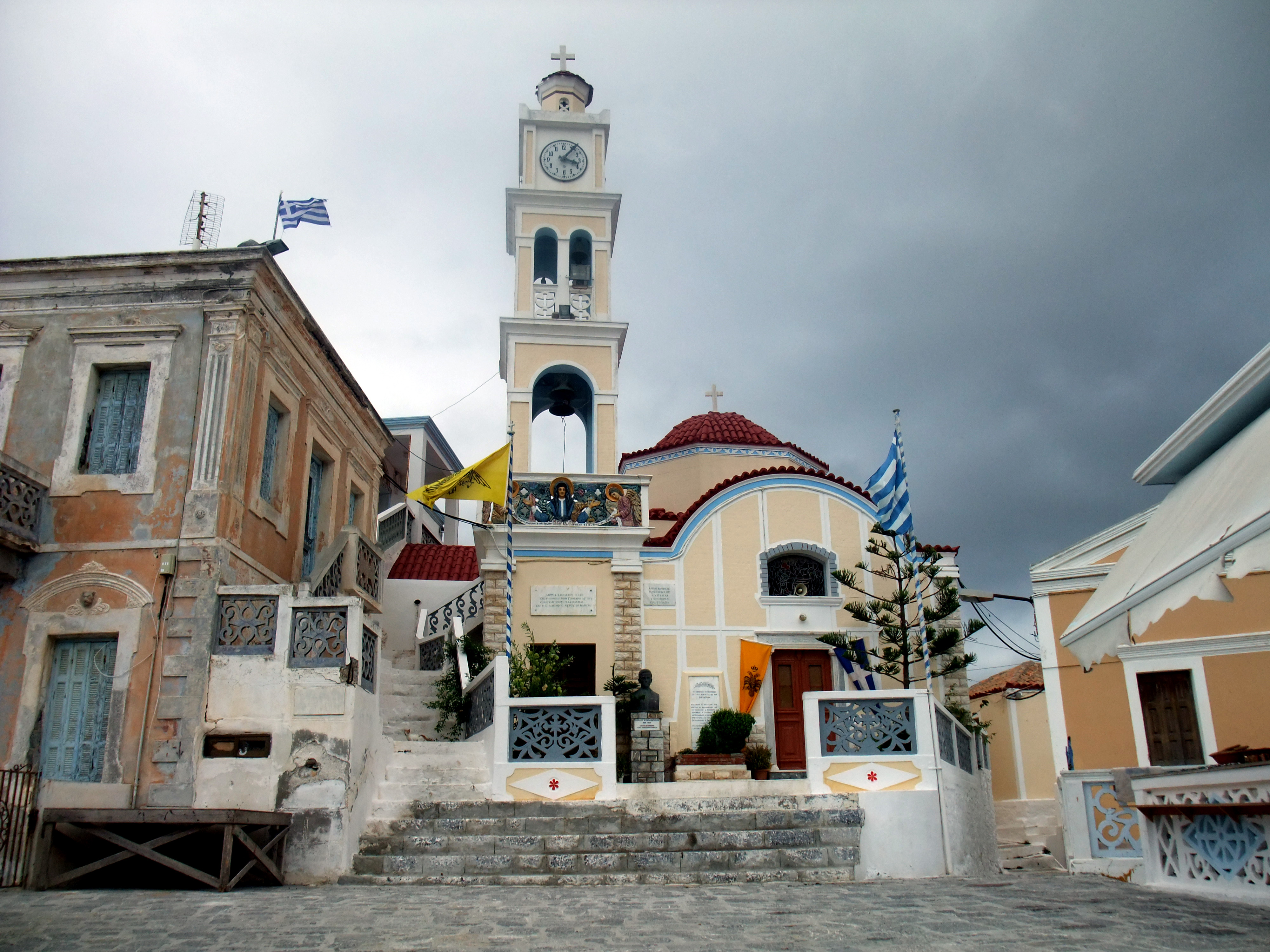 Parish church (exterior view) in Olympos, Karpathos, Greek Dodecanese islands